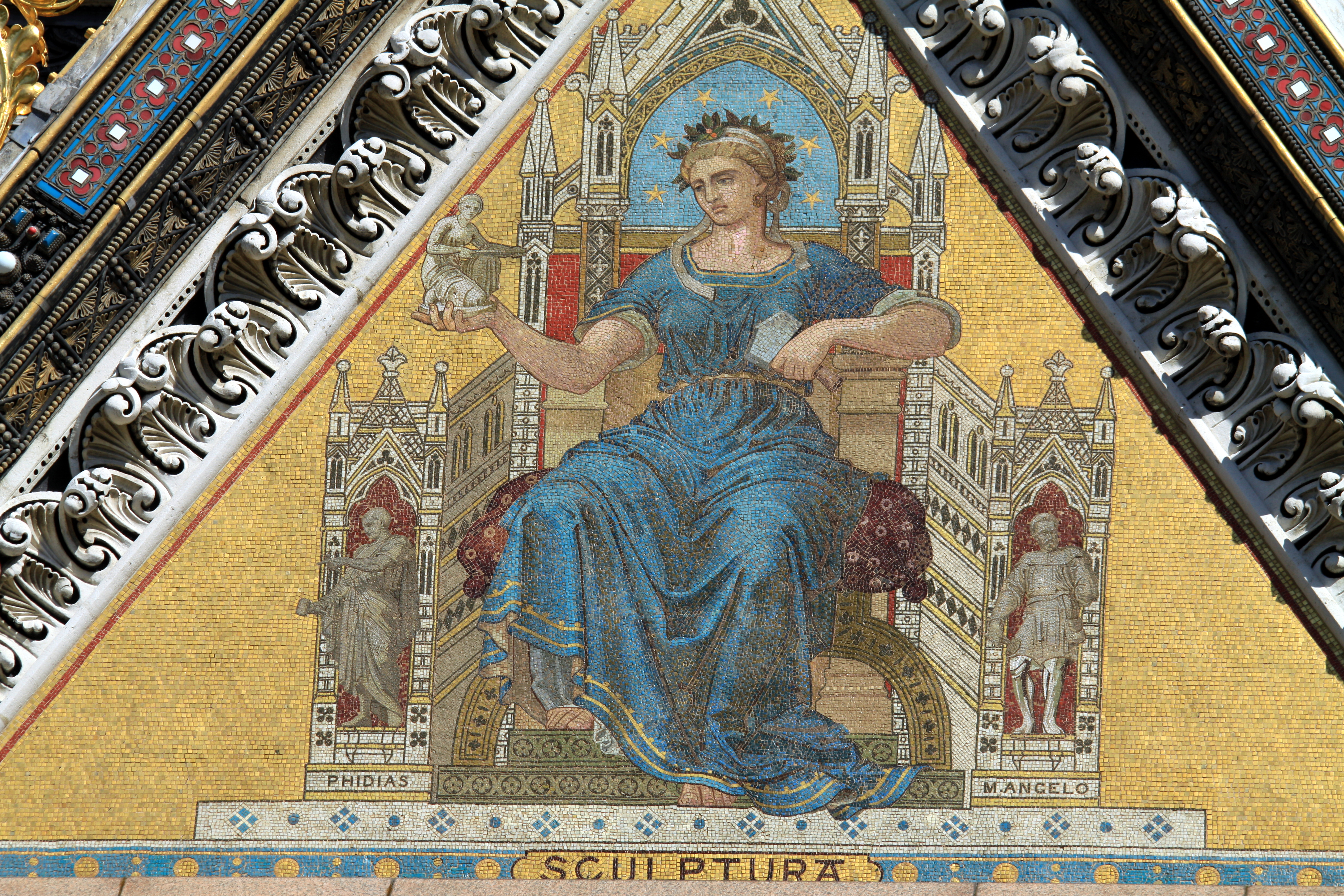 Detail of the western mosaic at the Albert Memorial in the Kensington Gardens, the City of Westminster, London, Great Britain. Designed by the stained glass firm, Clayton and Bell, glass inlay tiles made by stained glass firm, James Powell and Sons, mosaic set by Salviati of Murano, Venice. The making of this file was supported by Wikimedia UK.